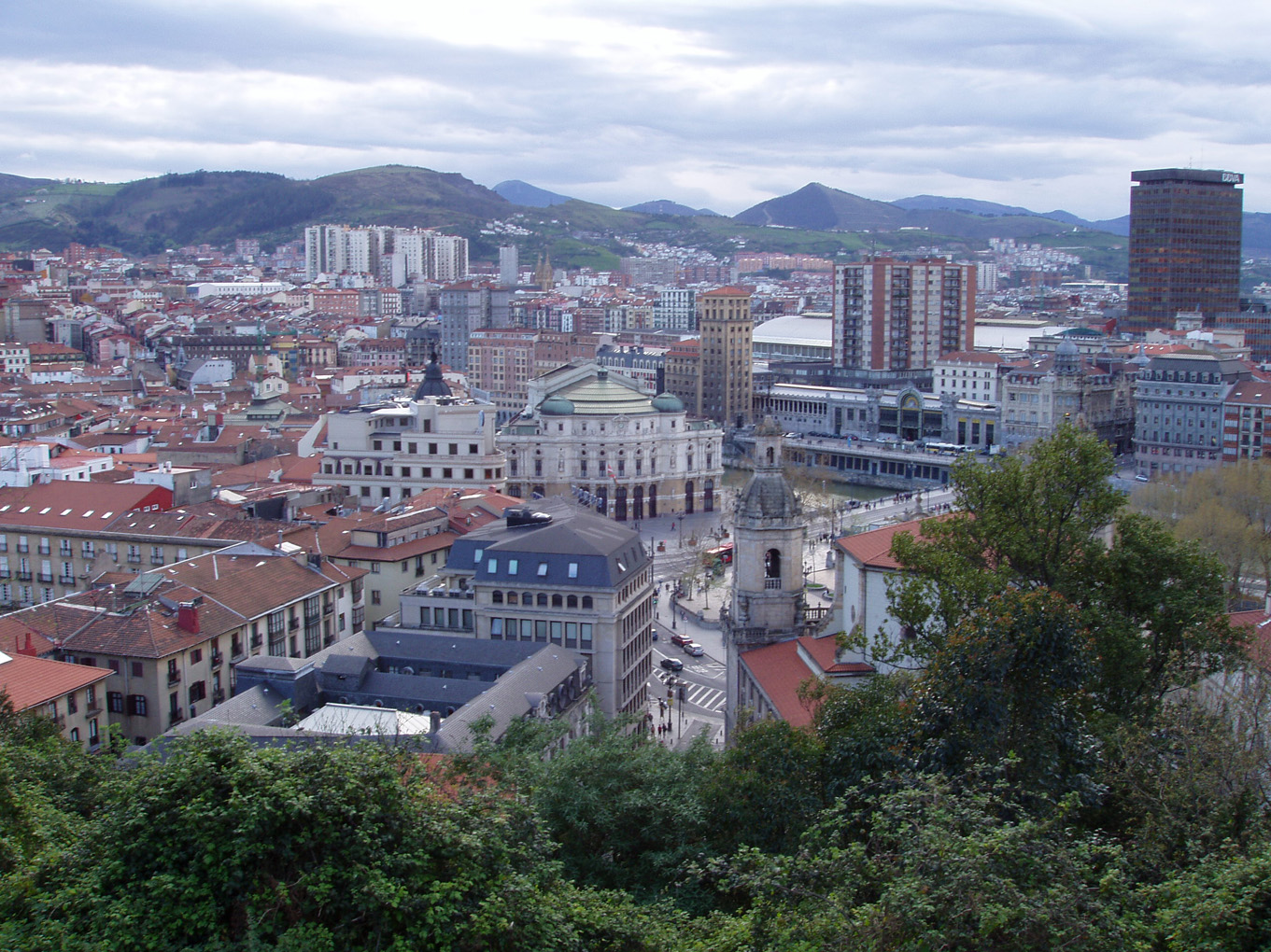 Bilbao panorama